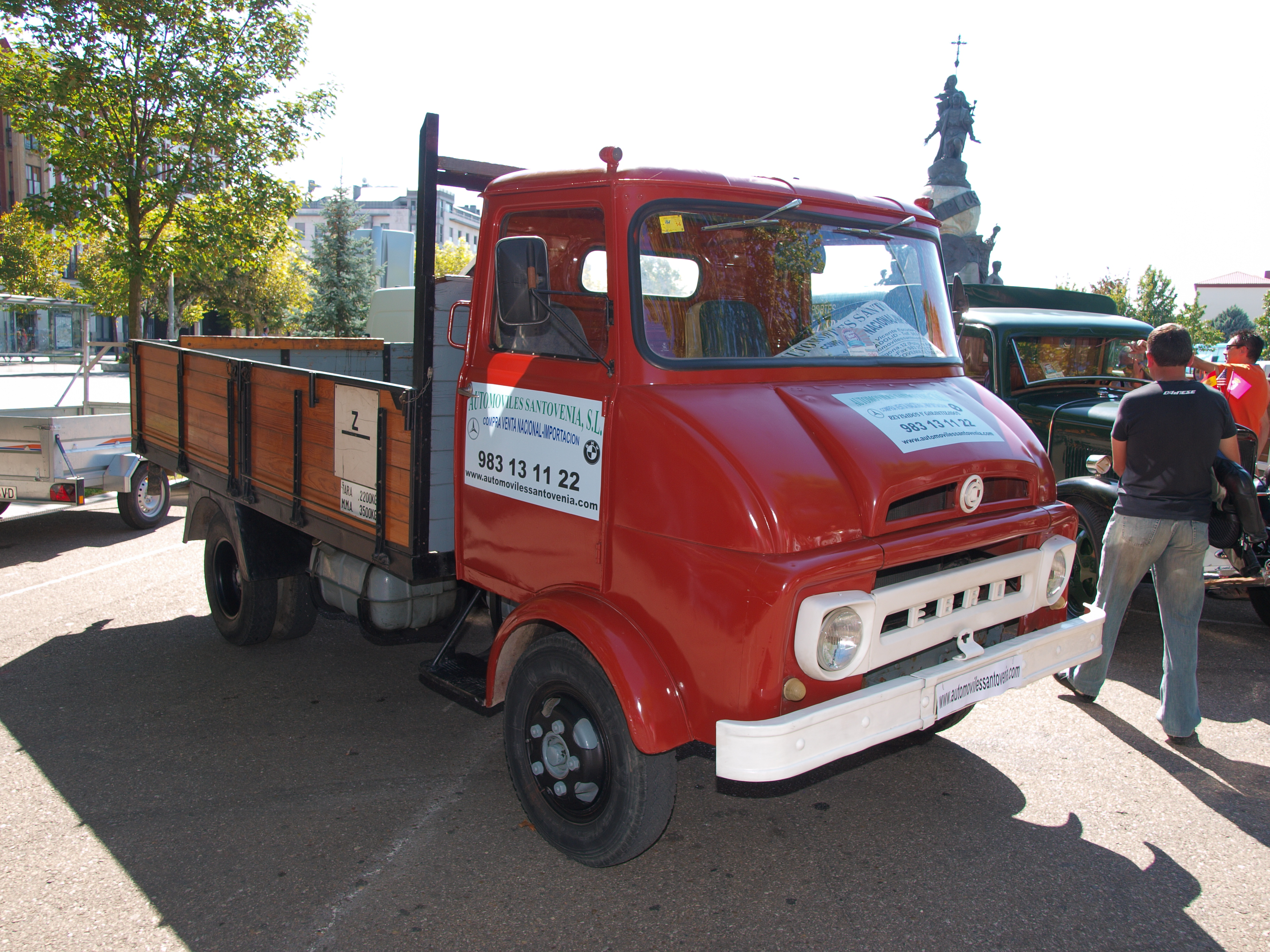 EBRO C-153 truck (1966), in the Vintage Exhibition at Valladolid (Spain), September 2014